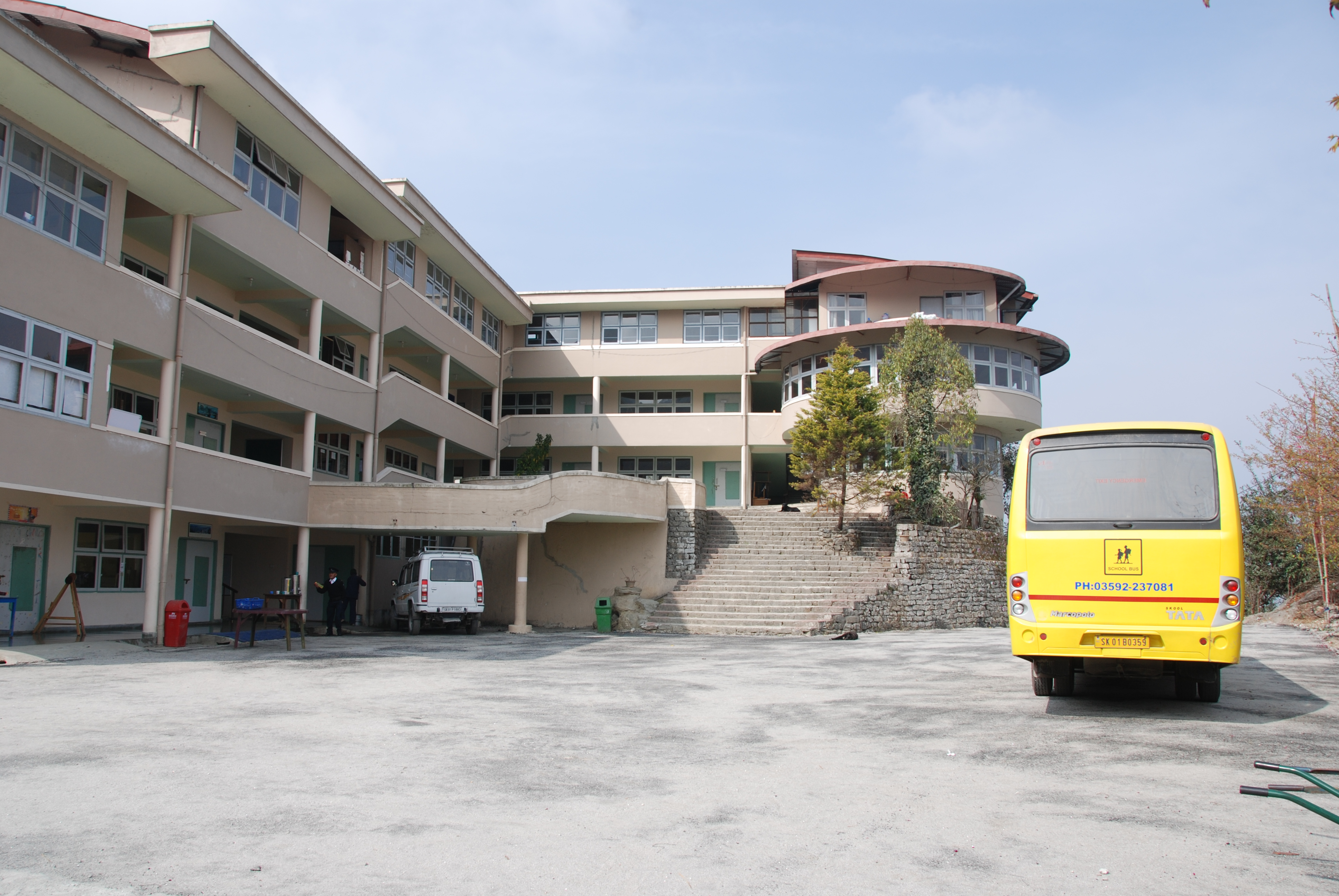 A photo of the main building on the campus of The Taktse International School in Sikkim, India.